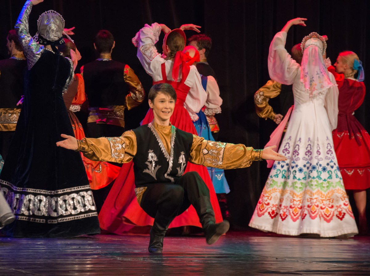 Russian folk ensemble Berezka and costumes